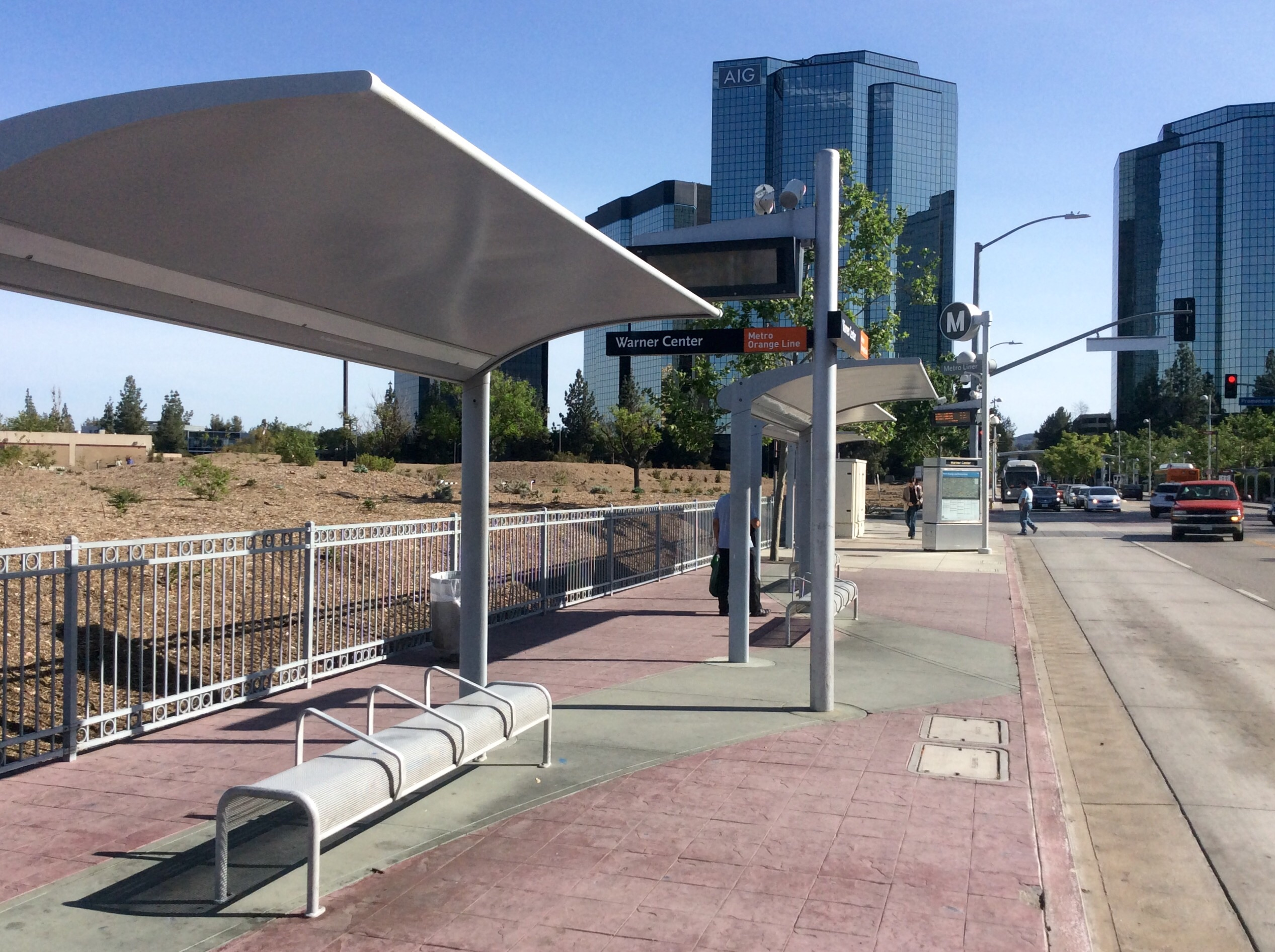 The platform view of Warner Center Station.